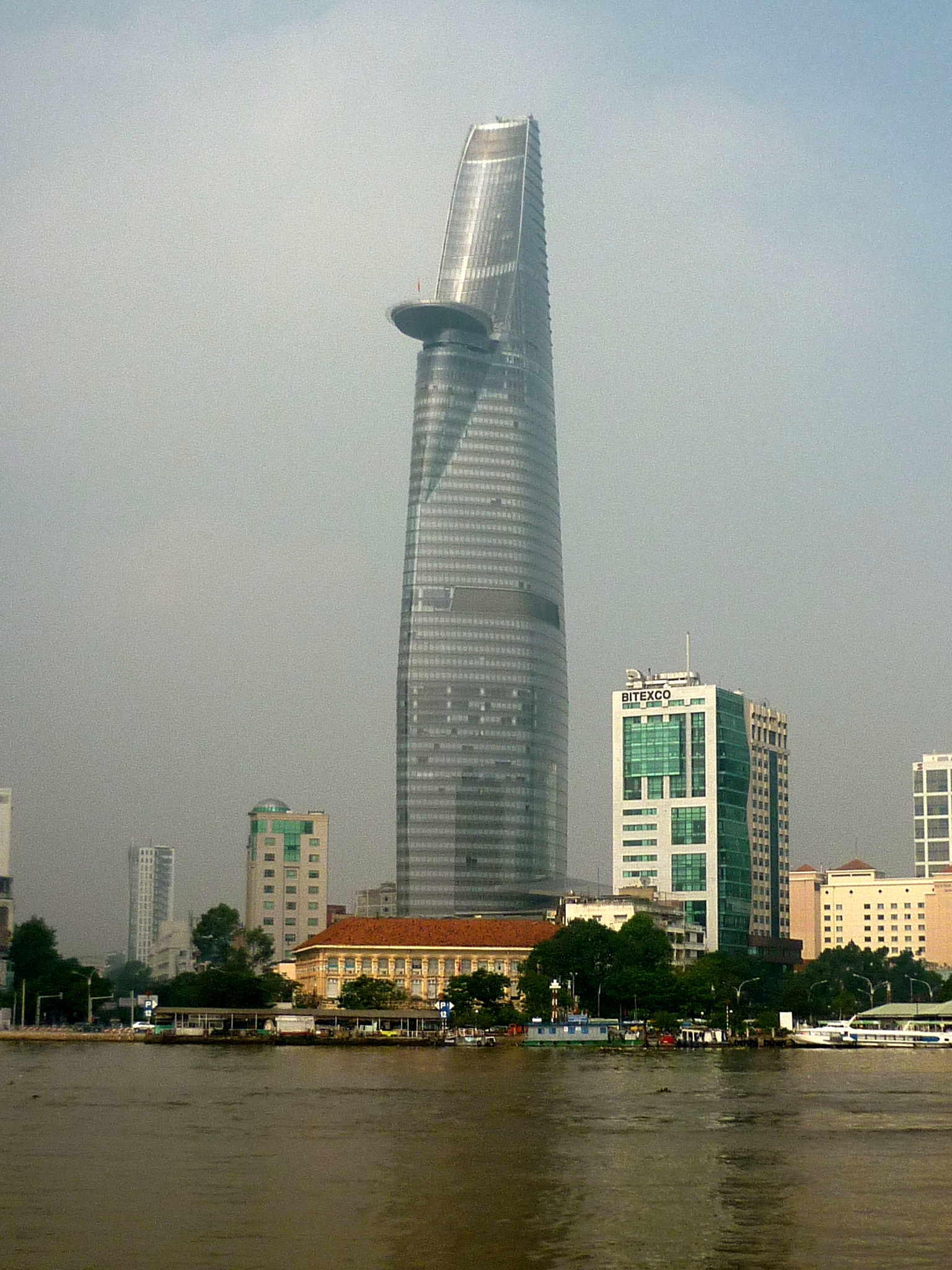 Bitexco Financial Tower is the tallest building in Ho Chi Minh City